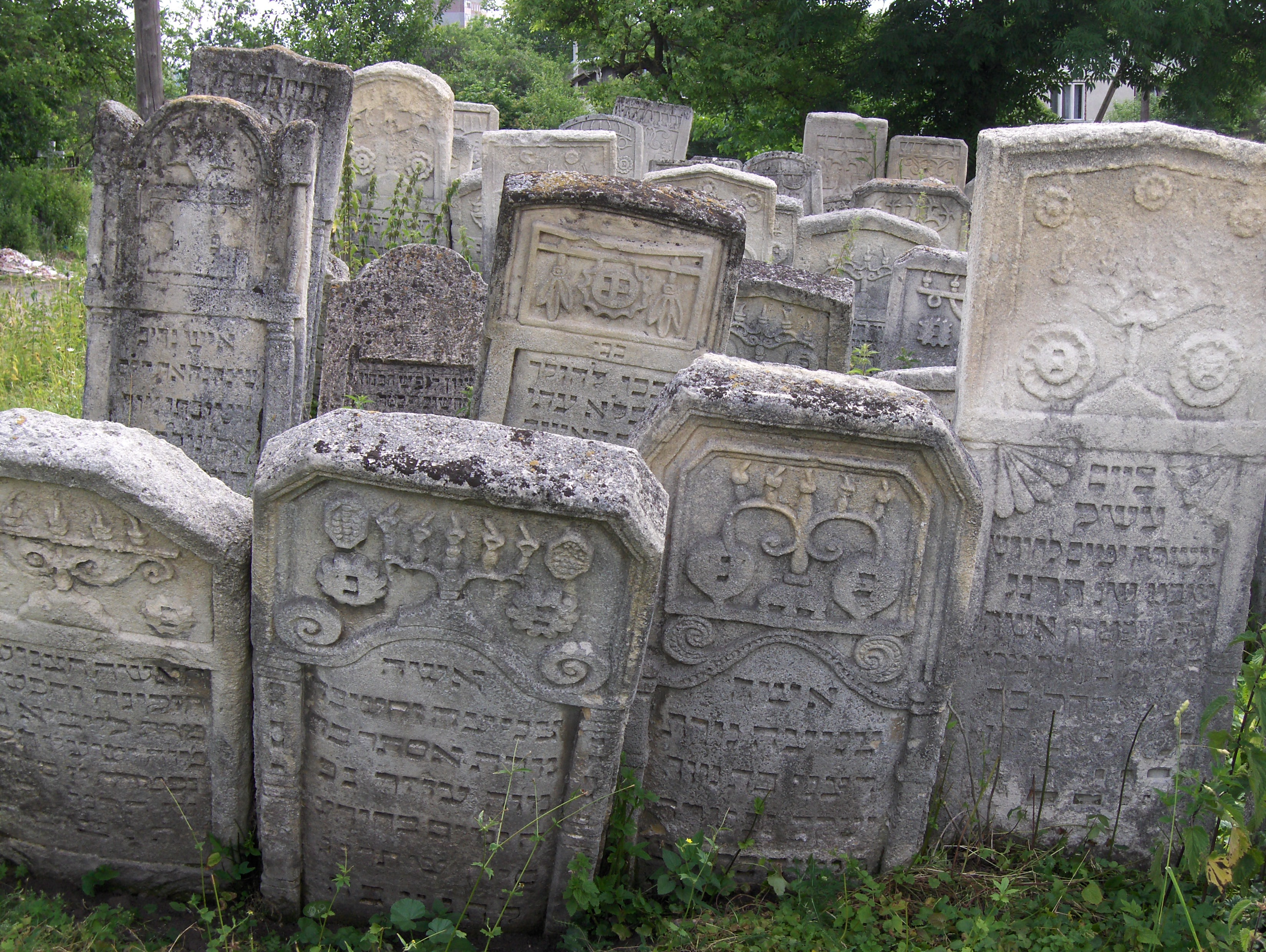 Jewish cemetery in Burshtyn, western Ukraine.